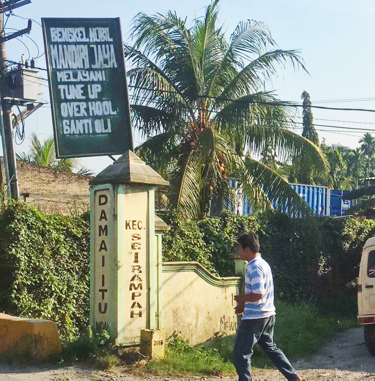 Welcome gate to Sei Rampah, Serdang Bedagai